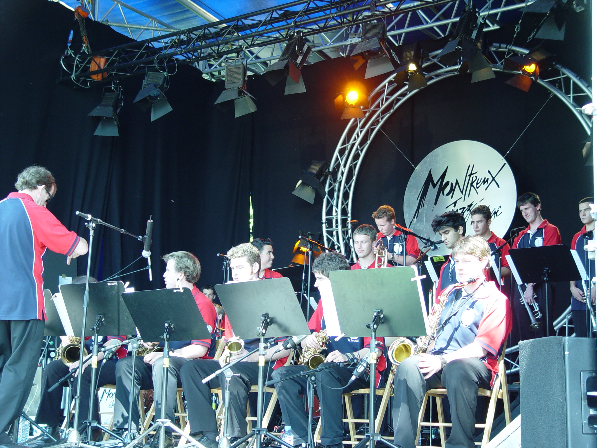 Australian Youth All Star Big Band performing at the Montreux Jazz Festival in 2004.